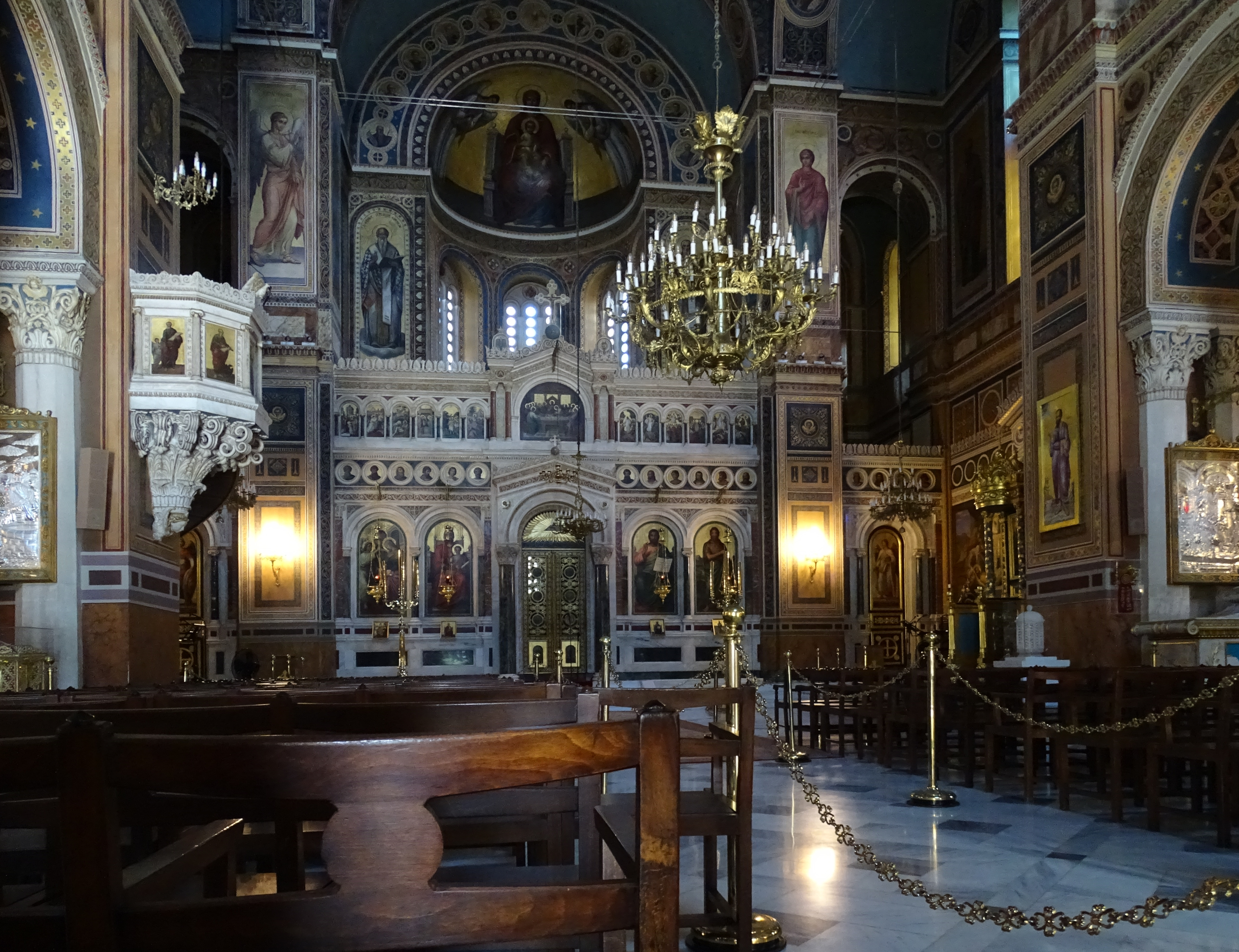 Metropolitan Cathedral of Athens.